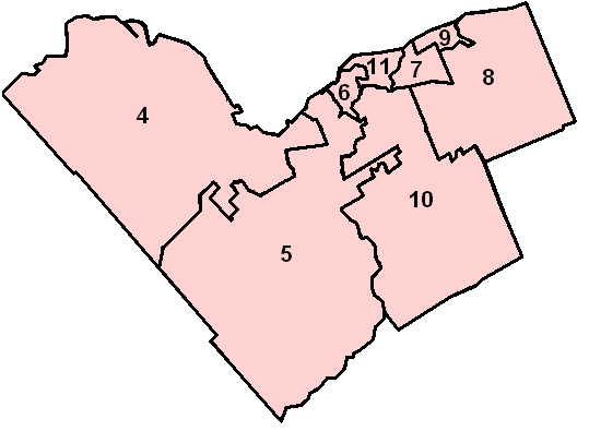 Ceclfcezones